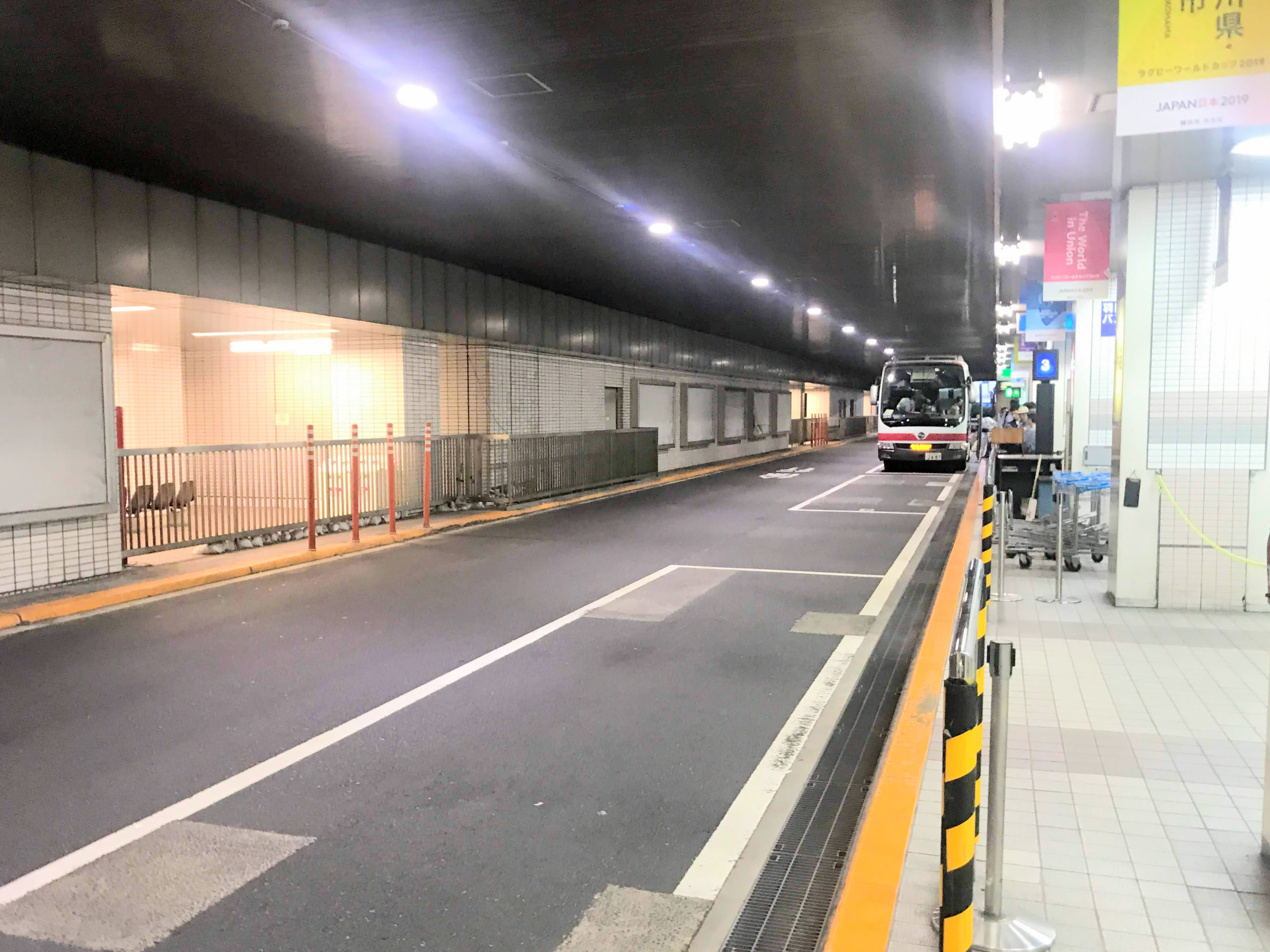 YCAT bus stop at Yokohama station.